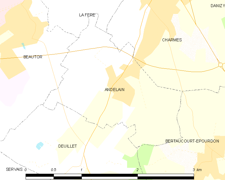 Map of French commune: Andelain Map commune FR insee code 02016.png